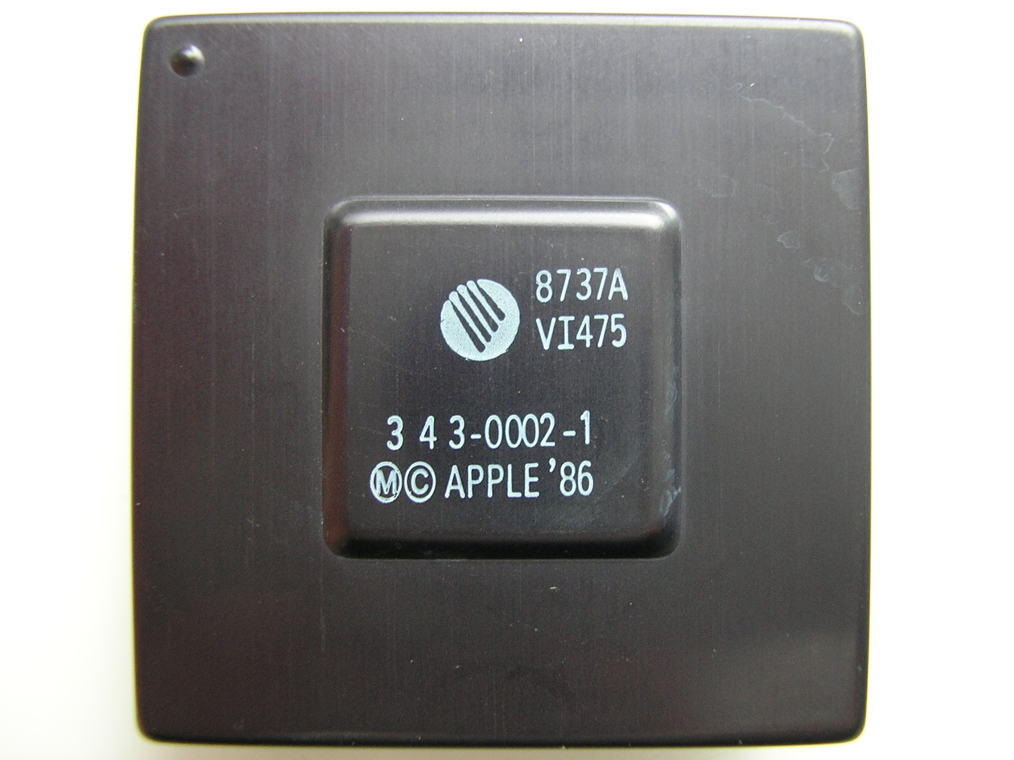 VLSI VI475 HMMU (Hardware Memory Management Unit) chip from an Apple Macintosh II. Apple part number: 343-0002-1 Apple Service Source mention this chip as "HMMU Chip", and the Apple Developer notes mention as "Apple HMMU".